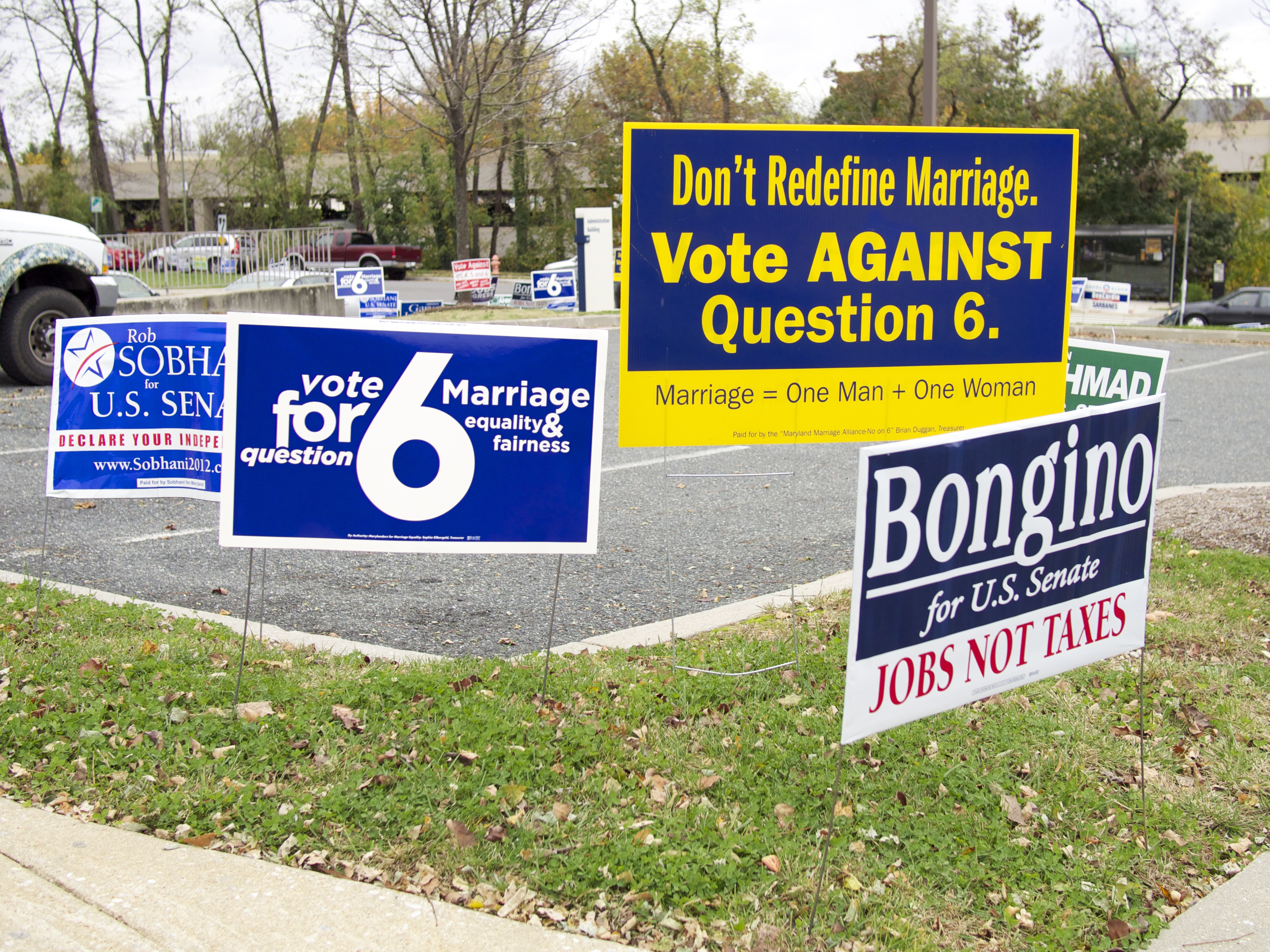 Signs in front of election site in November 2012 over Maryland's Question 6.